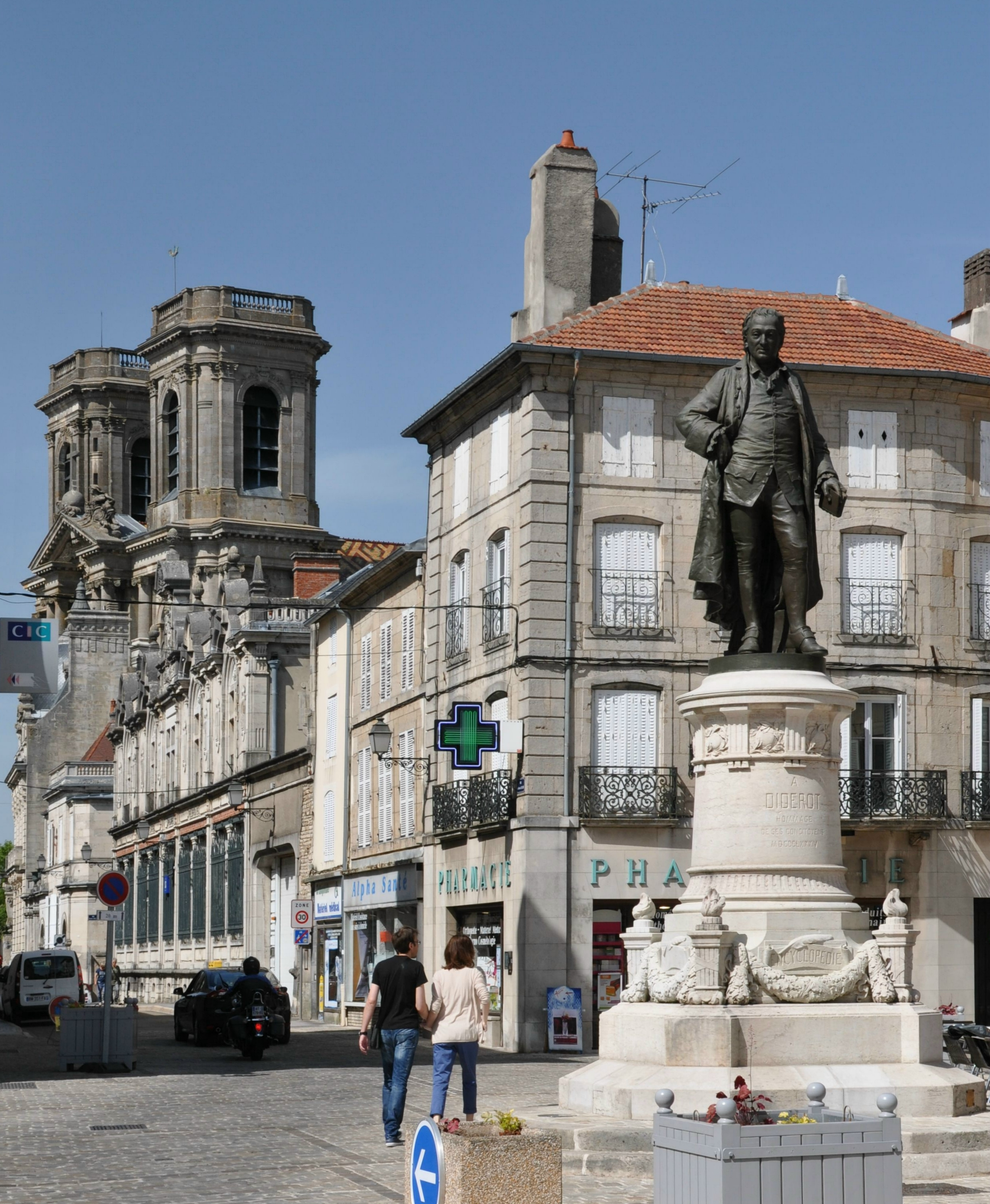 Place Diderot in Langres with statue of Diderot and Cathedral in the background